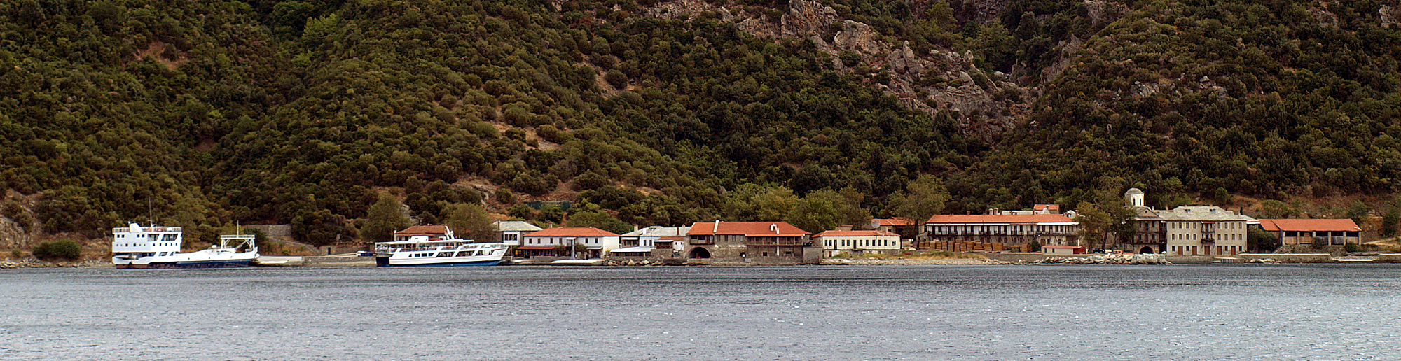 Dafni at Athos Halkidiki